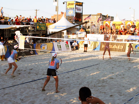 Beach tennis in Long Beach, New York, 2008